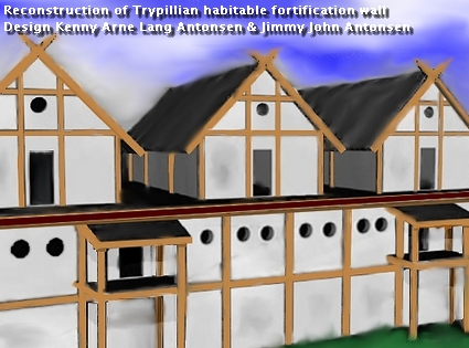 Reconstruction of fortified habitable wall, the central part of Maydanets c 4000 B.C. Based on information from the book LOOKING FOR TRYPILLYA-CULTURE PROTO-CITIES by Mykhailo Videiko.